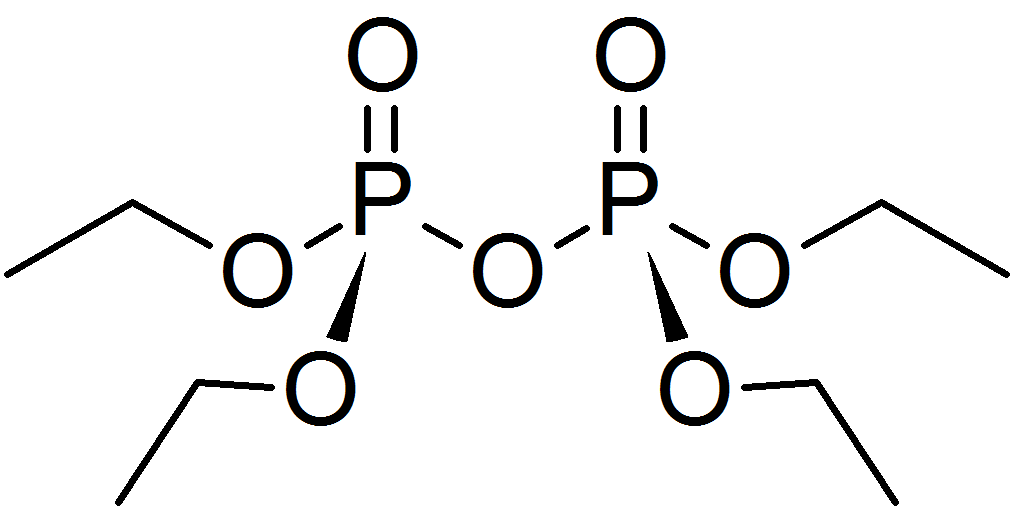 Structure of tetraethyl pyrophosphate